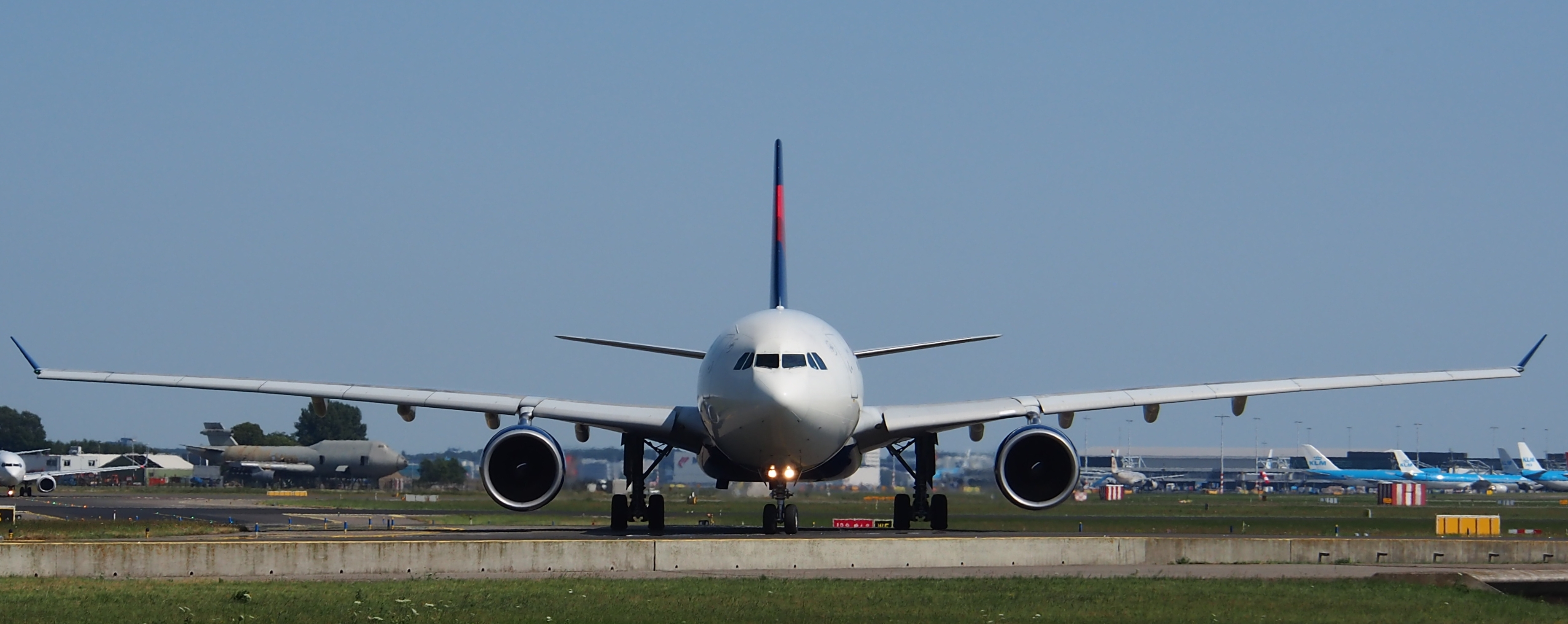 Photographed at Schiphol, Amsterdam airport, (IATA: AMS, ICAO: EHAM), the Netherlands.